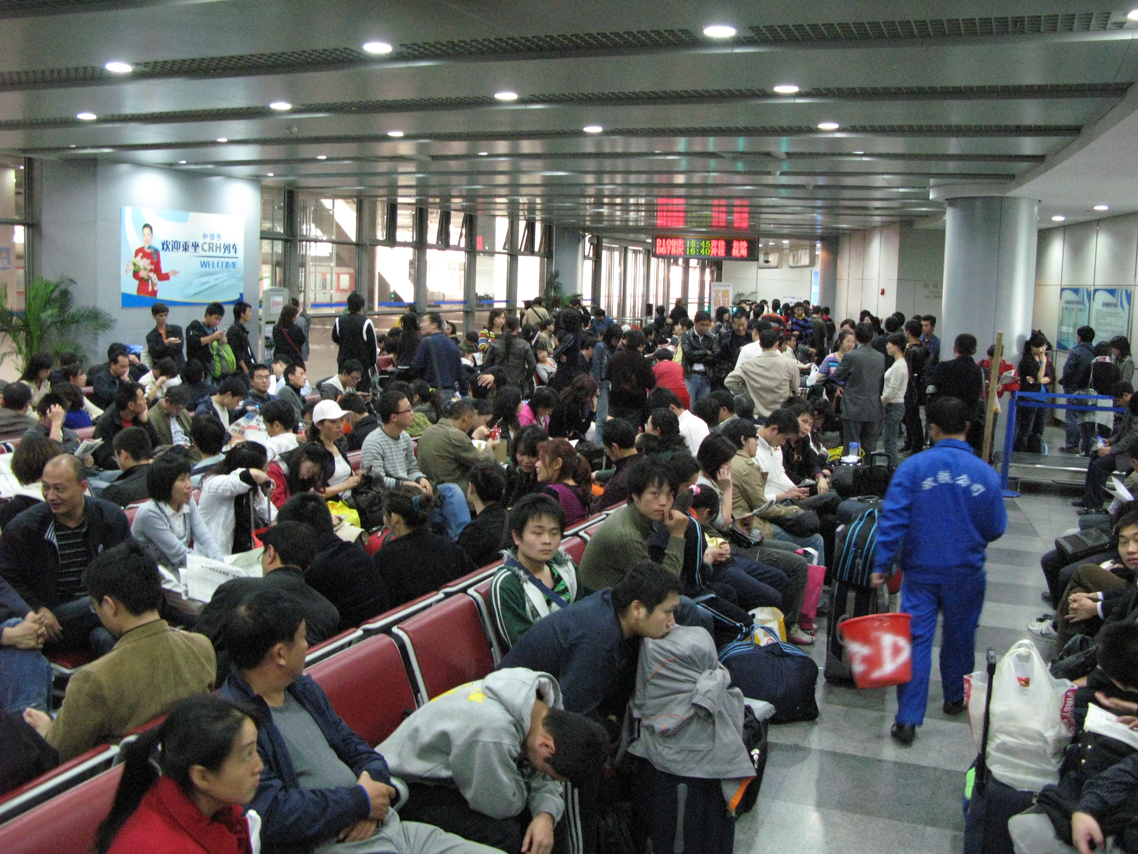 The CRH waiting room at the Shanghai South Railway Station. The room held more people than there were seats, by the end, and people were standing and sitting on luggage.